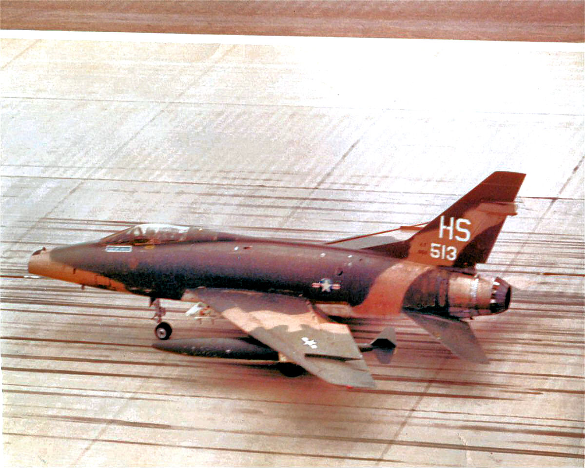 612th Tactical Fighter Squadron 612th Tactical Fighter Squadron 53-3513 Phu Cat AB RVN 1968